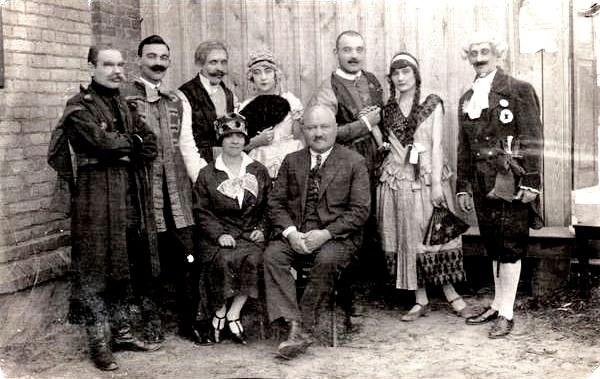 Anna Rudawcowa as actress (standing in the center). Anna Rudawcowa (1905-1981) - Polish poet, writer, actress and teacher, Polish patriotic activist; during WWII an exile to Siberia (Russia).